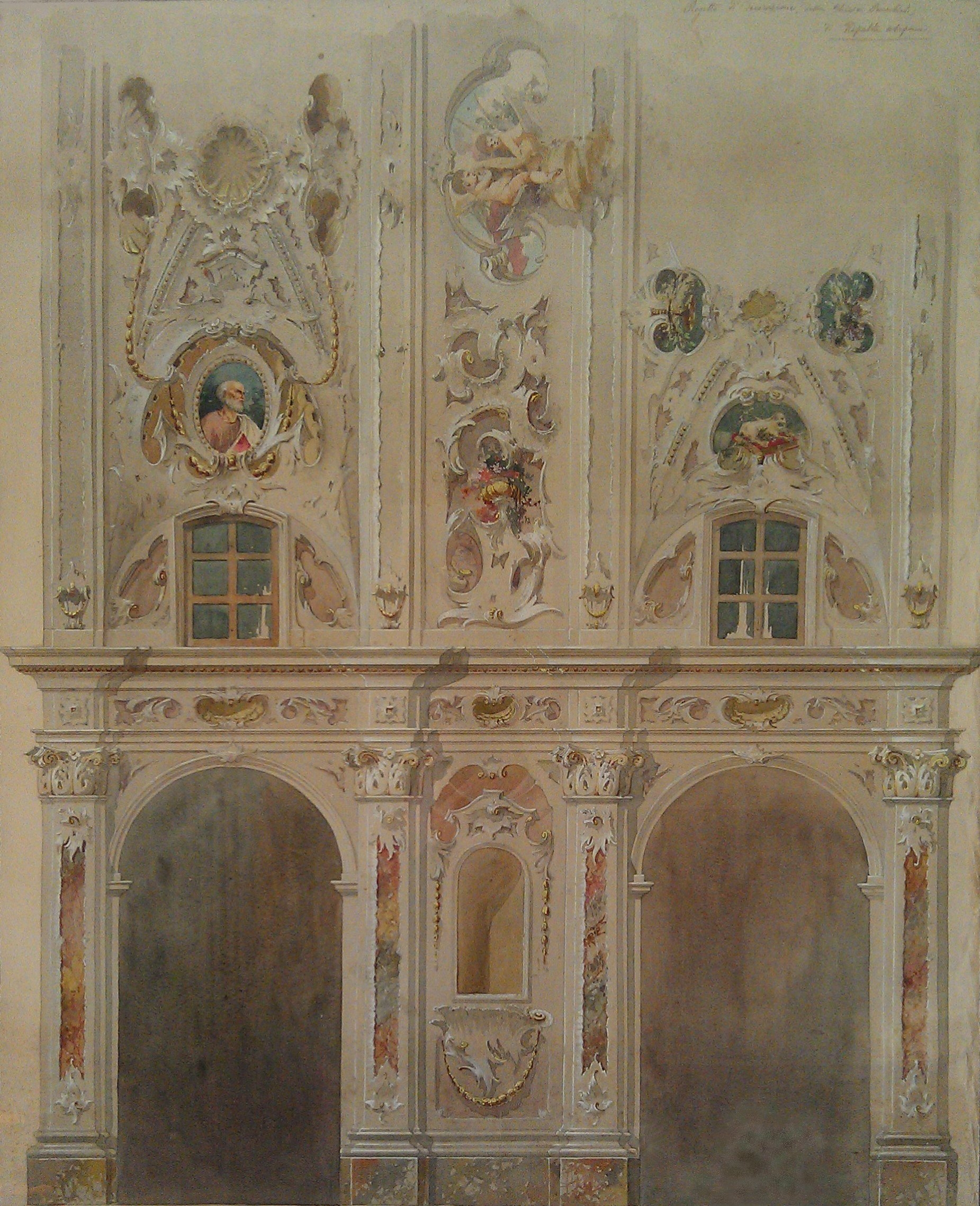 Riccardo Palanti - Decoration studio of Ripalta Arpina church